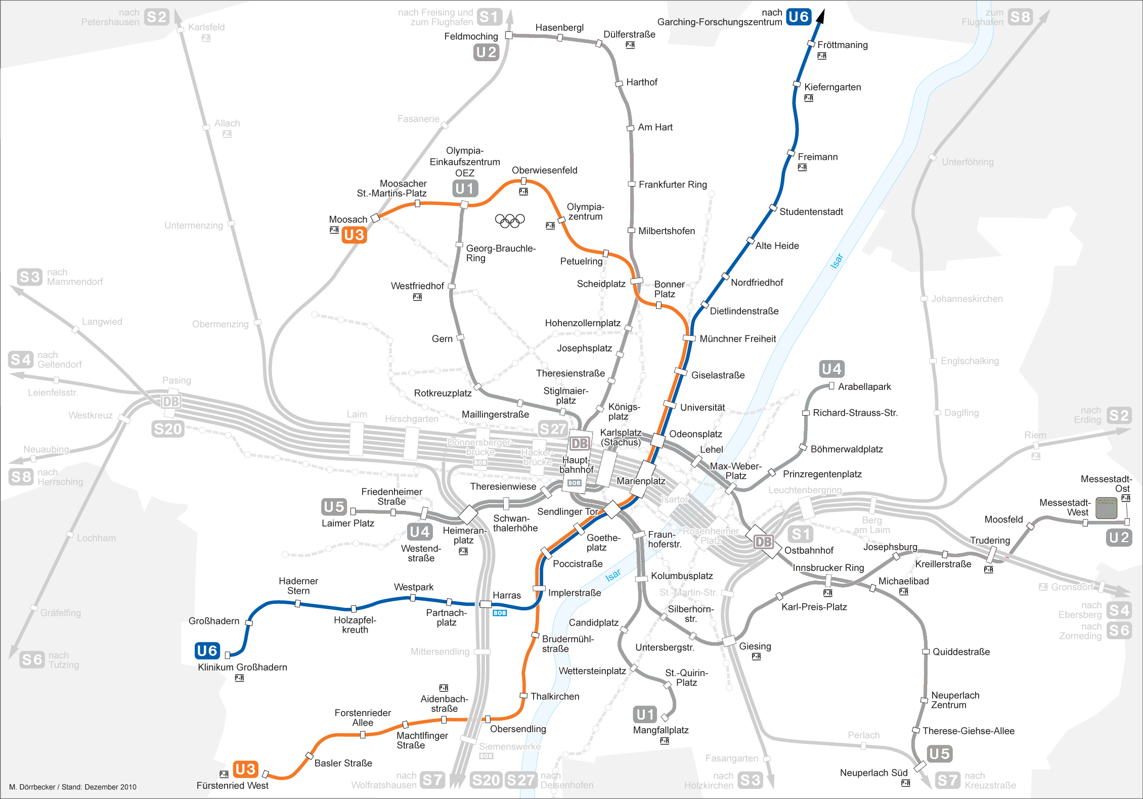 Topographical underground network map of Munich 2008